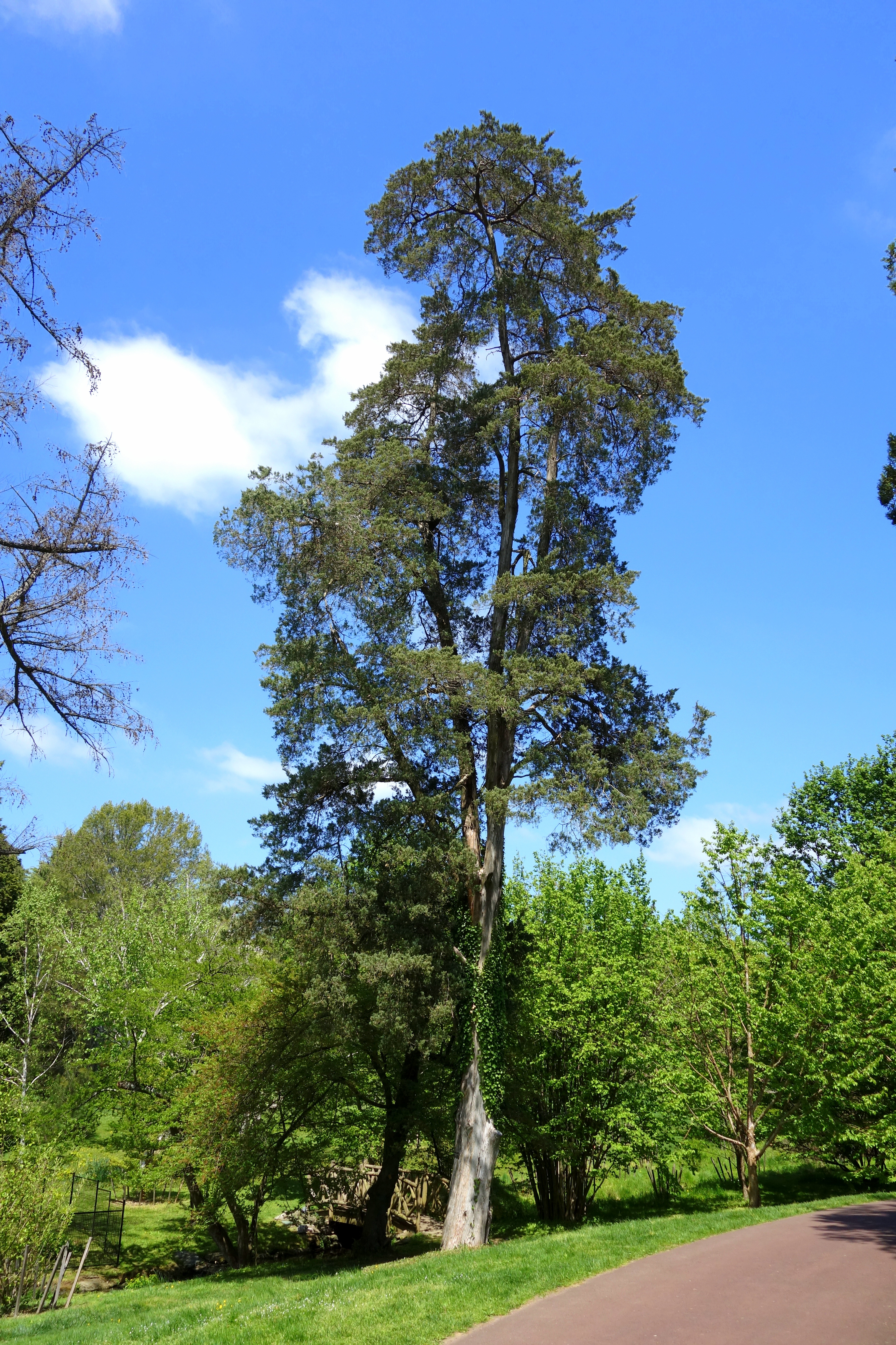 Botanical specimen in the Morris Arboretum, 100 East Northwestern Avenue, Chestnut Hill, Philadelphia, Pennsylvania, USA.